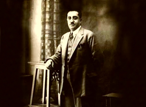 Haydar Bey, 1924.